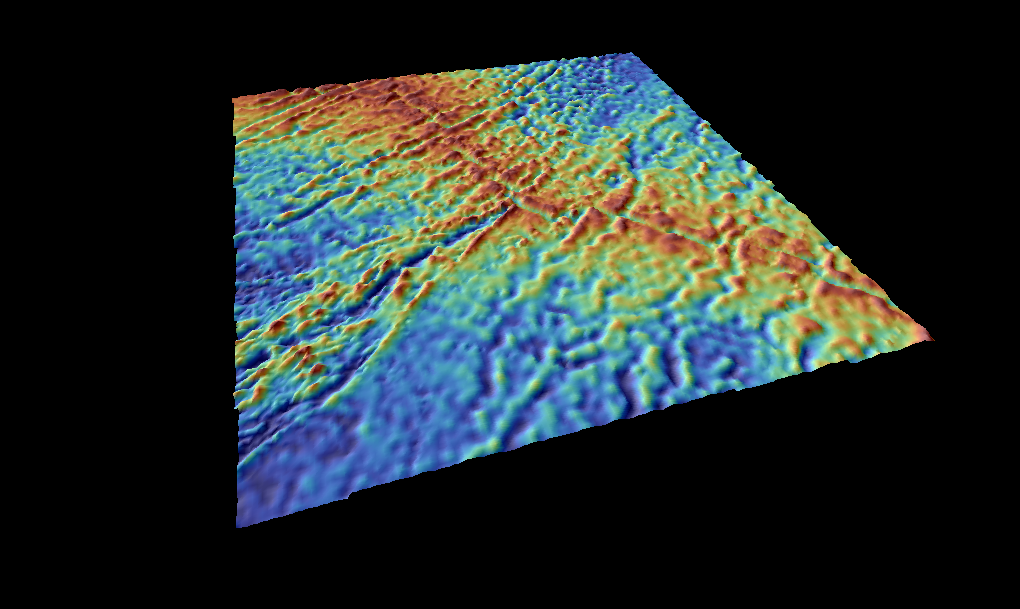 Rodrigues Triple Point. Left=65E, right=75E, back=20S, front=30S, back to front=1100 km, UTM42.